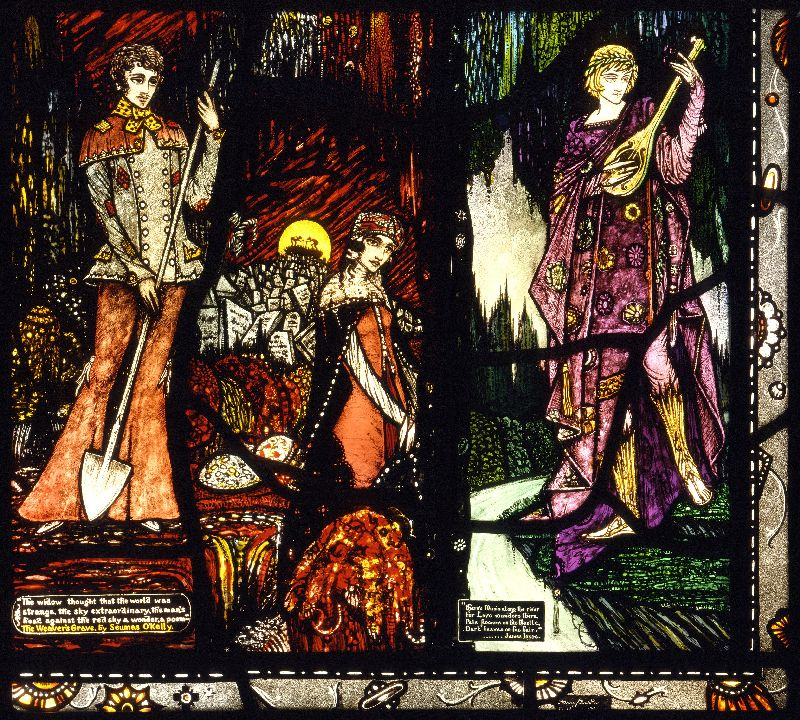 Genova Window by Harry Clarke, 1930